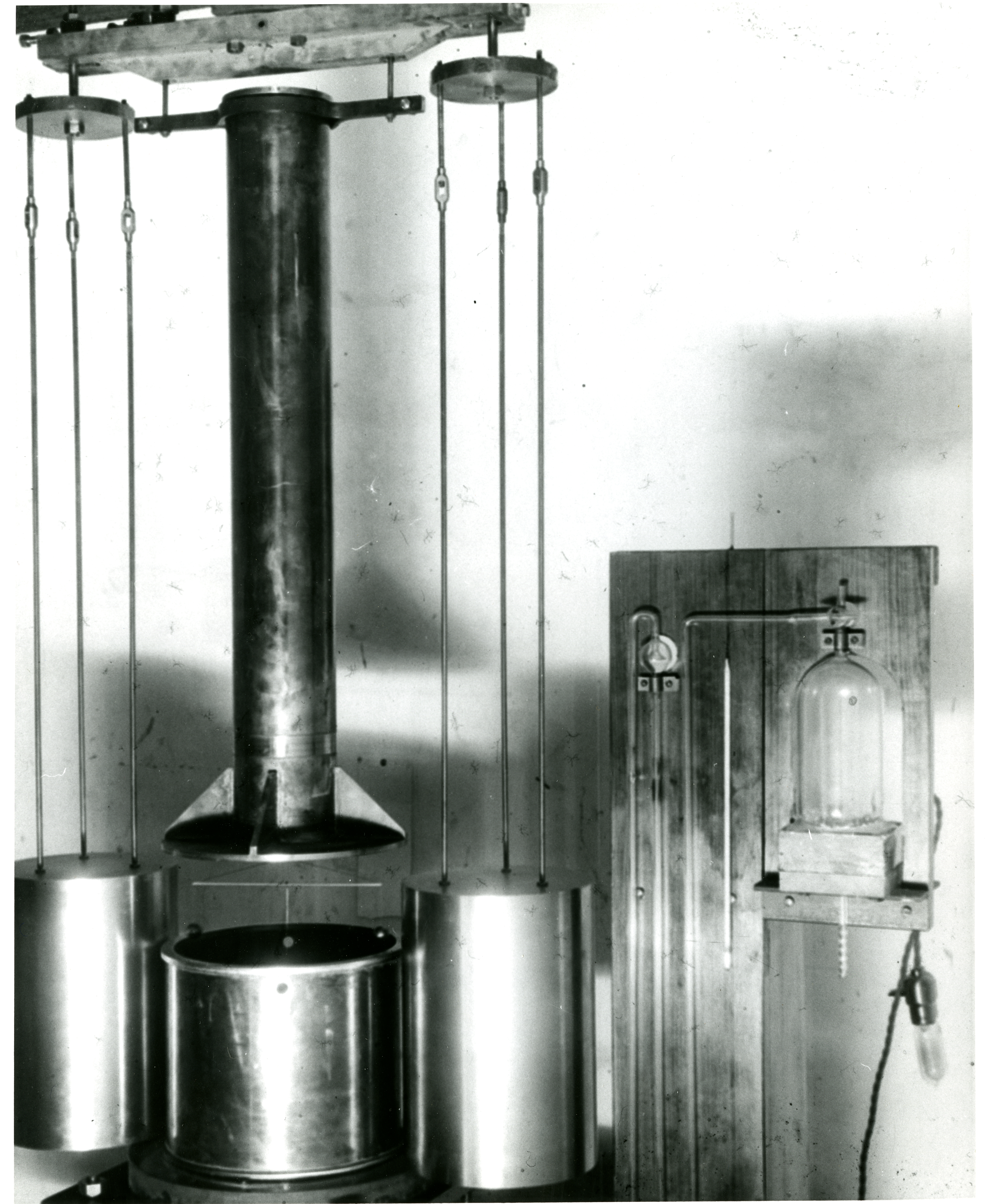 torsion balance used by Paul R. Heyl in his measurements of the gravitational constant G at the US National Bureau of Standards (now NIST) between 1930 and 1942. It consists of a horizontal beam with small weights at either ends, suspended by a delicate quartz fiber. The two large cylindrical weights attract the small weights on the ends of the arms, exerting a torque on the beam that twists the fiber. The angular deflection of the beam is proportional to the gravitational force between the large and small weights.